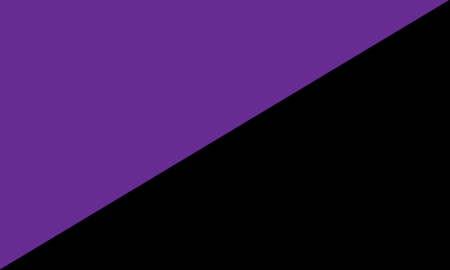 Created by myself, using Adobe Photoshop CS. The Puple/Violet & Black flag of Anarcha-Feminism.